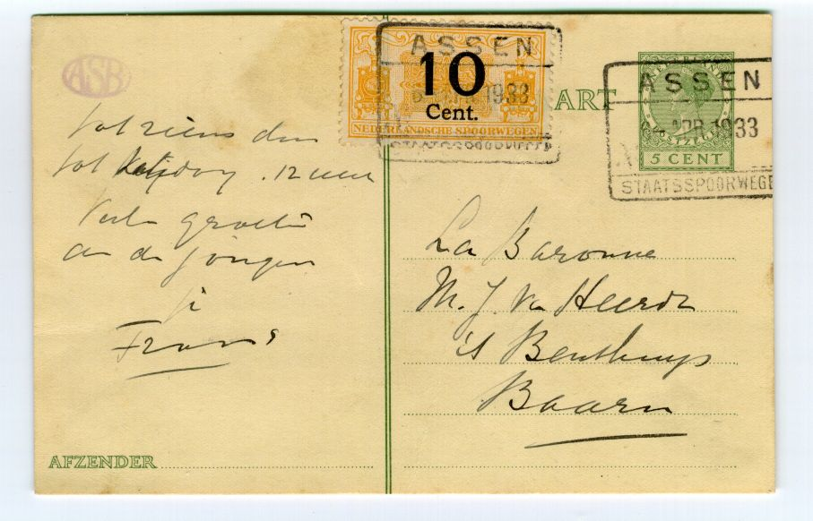 Dutch postcard, send as a railway letter 1933